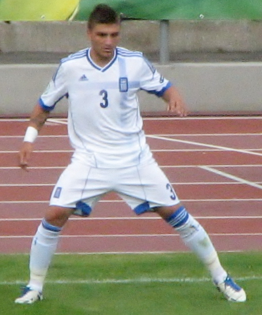 Kostas Stafylidis playing for Greece against Estonia